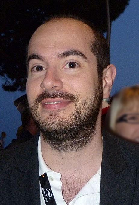 Kyan Khojandi at the 2012 Cannes Film Festival.